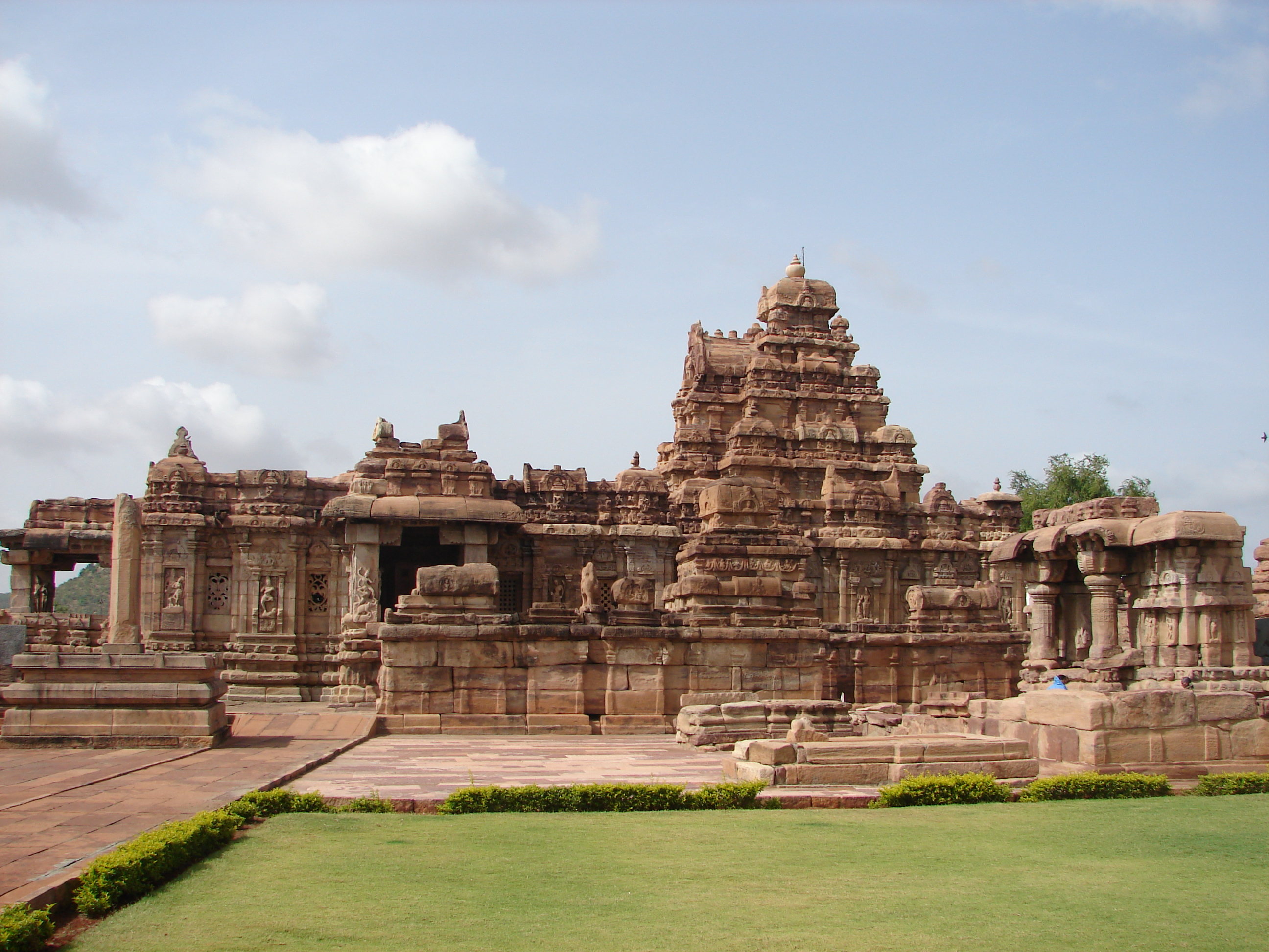 The Virupaksha temple (originally called Lokesvara temple) at Pattadakal in Karnataka from the north, India, was built by queen Lokamahadevi (queen of Badami Chalukya King Vikramaditya II) around 740 CE.